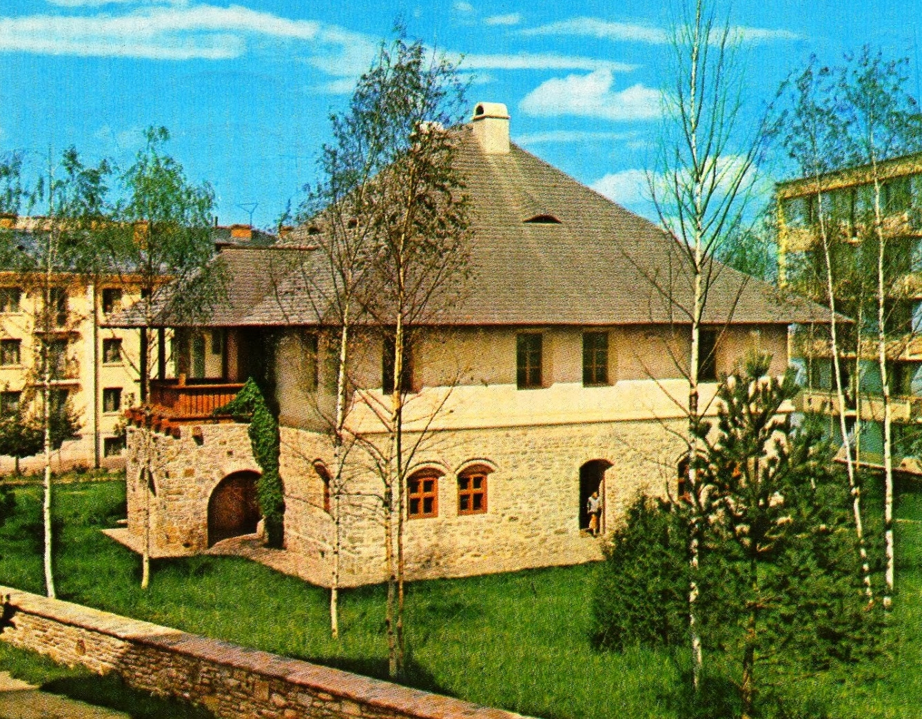 The Princely Inn in Suceava (The Ethnographic Museum) in an old photo.